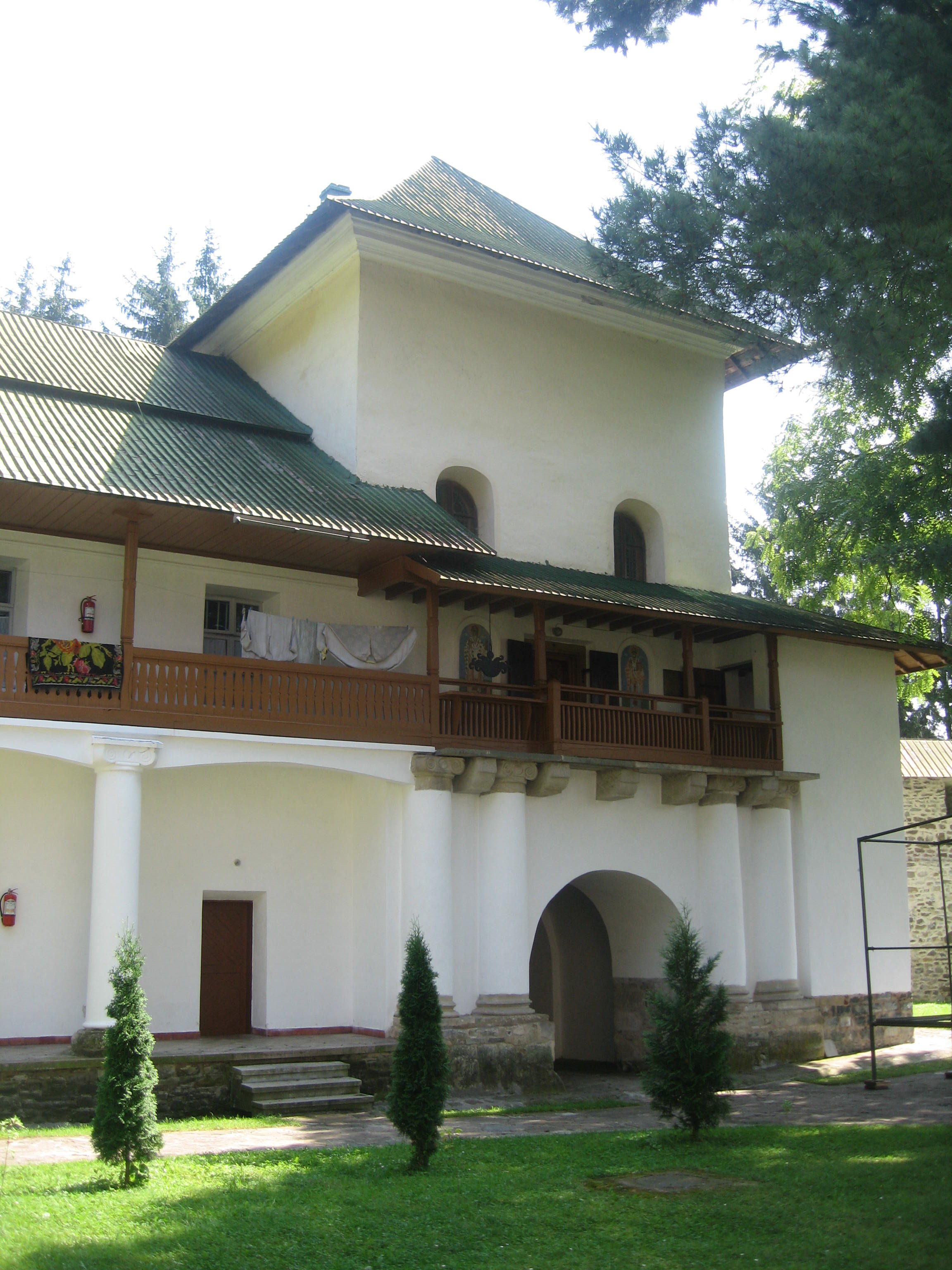 Slatina Monastery